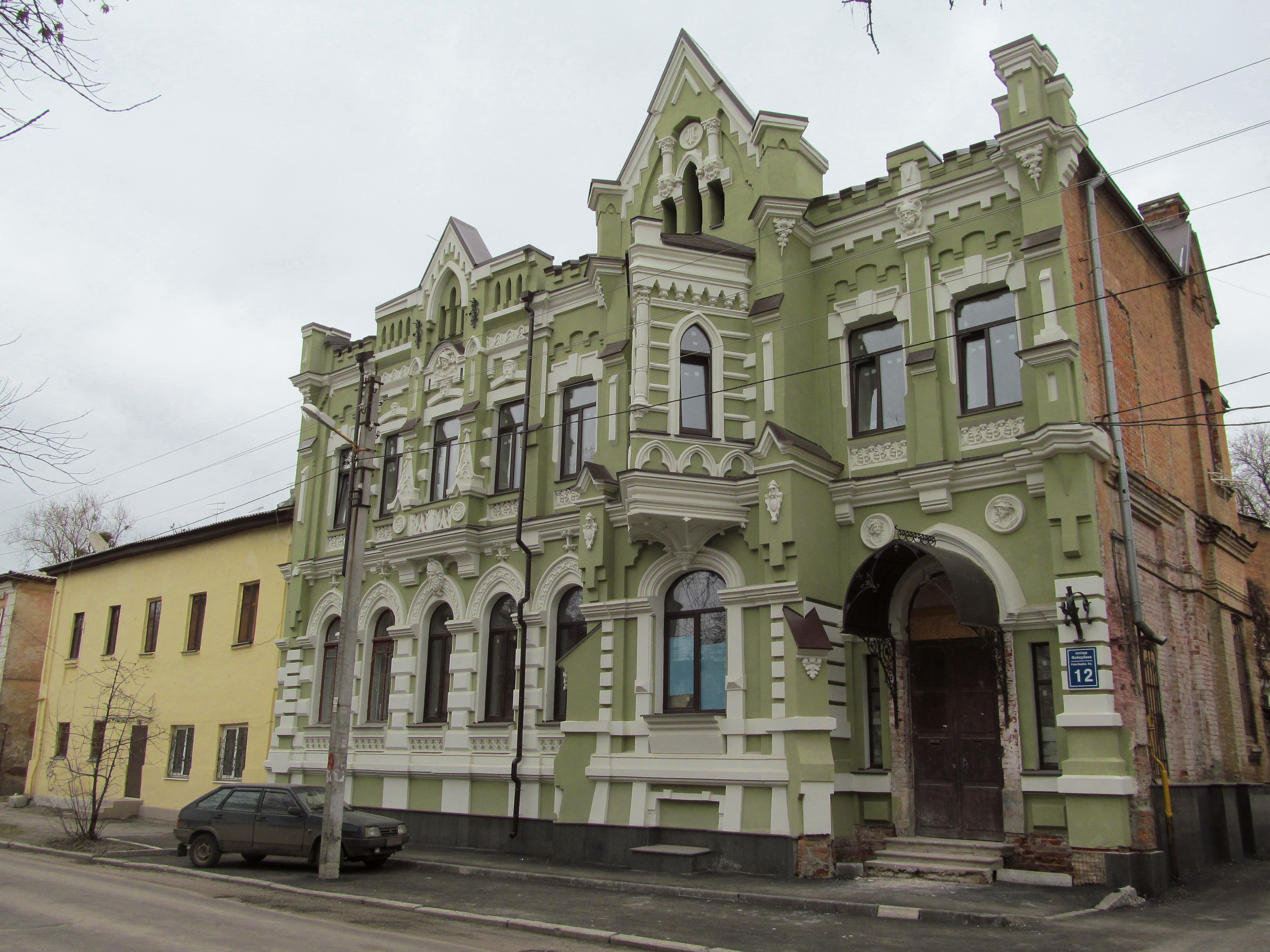 Feuerbach Square, 12, Kharkiv, Ukraine.